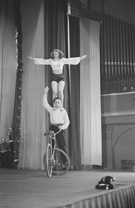 Original image description from the Deutsche Fotothek Zweiradartisten